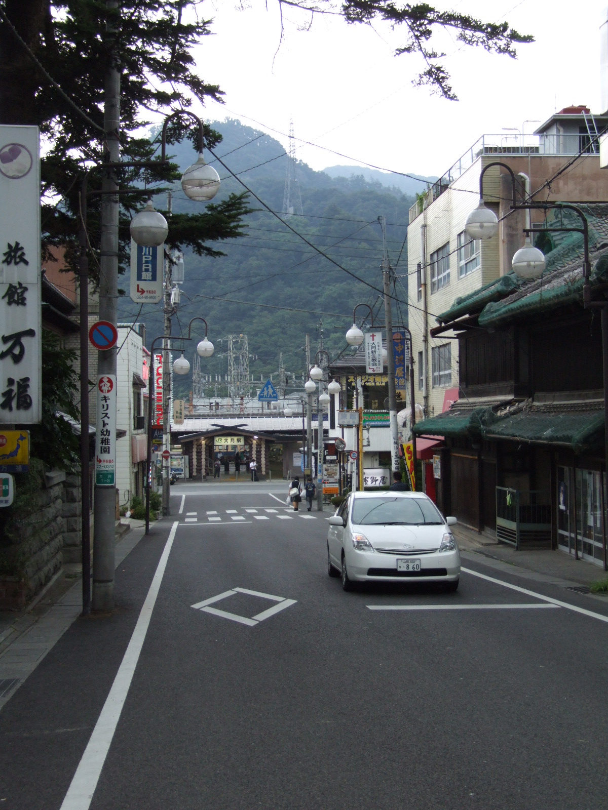 Yamanashi Prefectural Road 502, Ymanashi Teishajo Line. Ōtsuki, Yamanashi prefecture, Japan. Northward to the Ōtsuki Station.